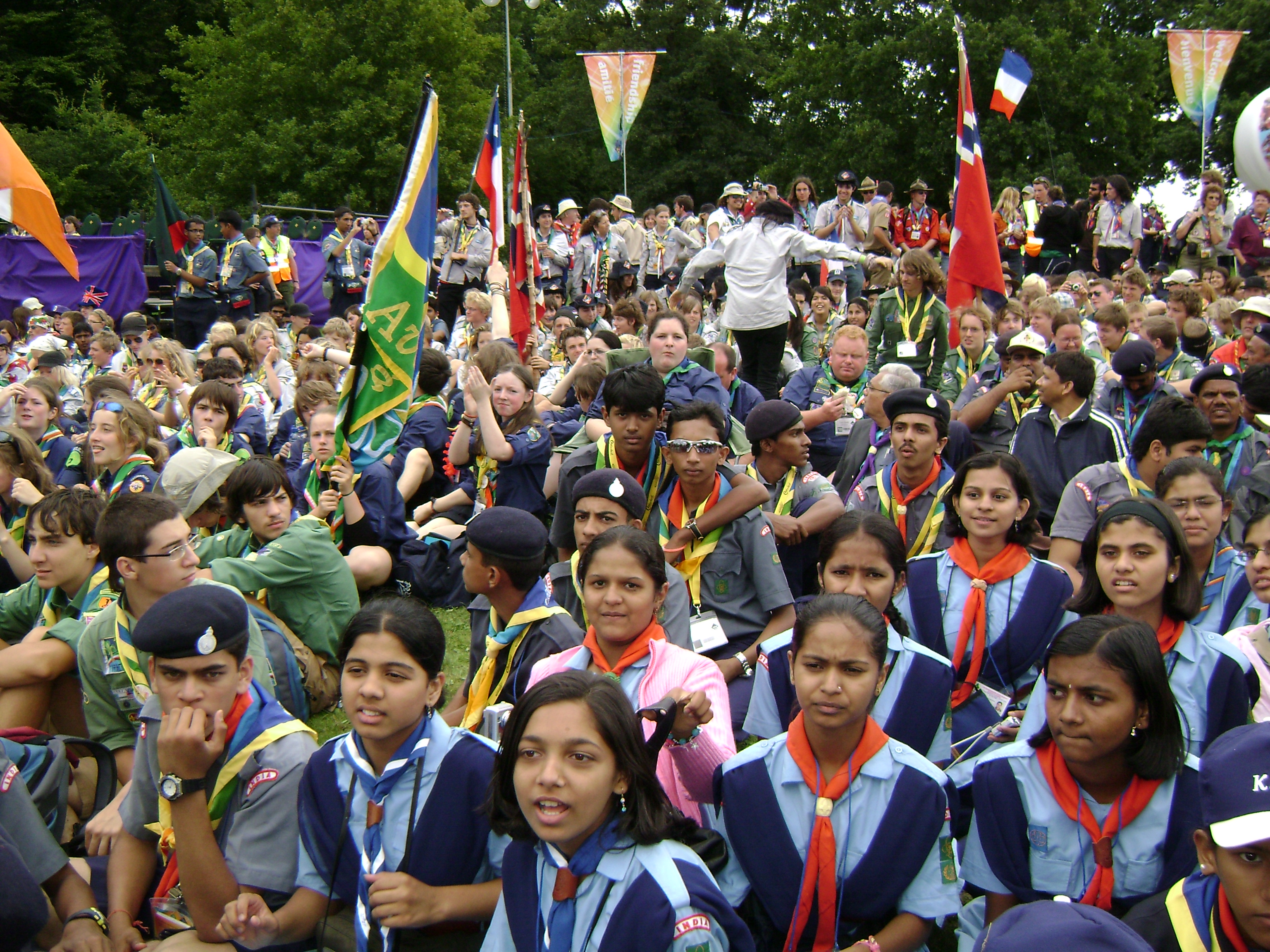 Jamboree photo 2007